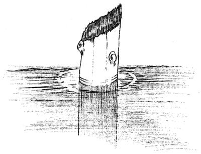 Sketch of the "Old Man of the Lake," which accompanies article by Kartchnerand, W.E. & Doerr, J.E., Jr., "Wind Currents In Crater Lake As Revealed By The Old Man Of The Lake," Nature Notes from Crater Lake National Park, Vol. XI, No. 3 (September 1938). Sketch was published in the U.S. between 1923 and 1977 without a copyright notice. Image is on the Internet at National Park Service, here. -- Suntag (talk) 01:28, 11 September 2008 (UTC)